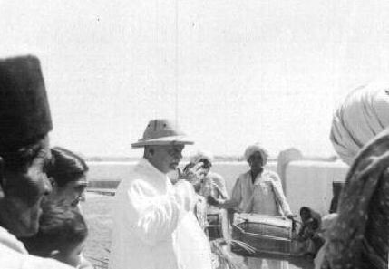 English cricketer, Kumar Shri Duleepsinhji during one of his routine visits to a village near Junagadh in Saurashtra State to see the condition of living of the local people. He is being given the traditional welcome by the villagers by drum beating, pipe music etc.